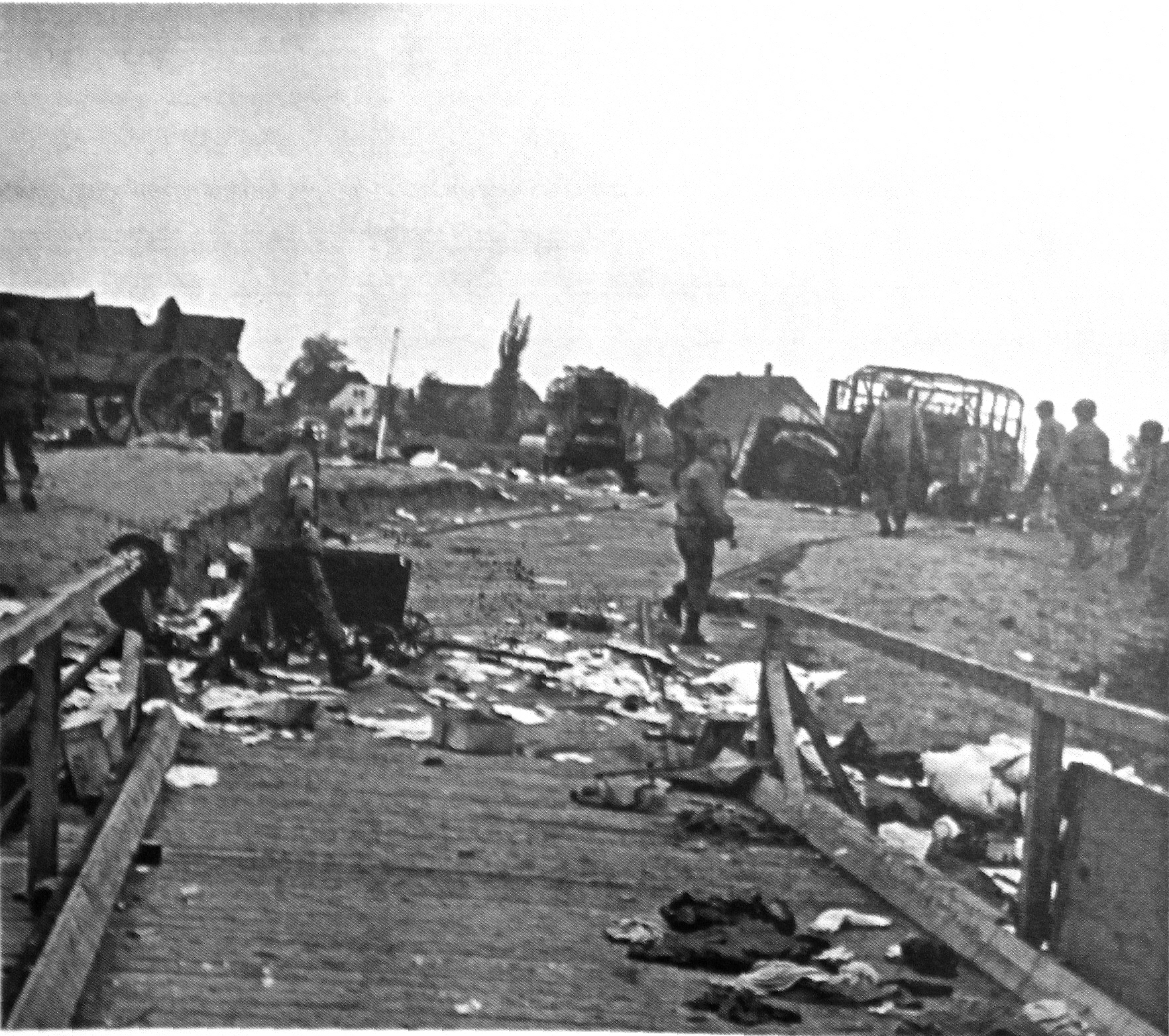 First Lt. Kotzebue (U.S. Army) and his patrol walk across a field of corpses in Lorenzkirch, Germany.